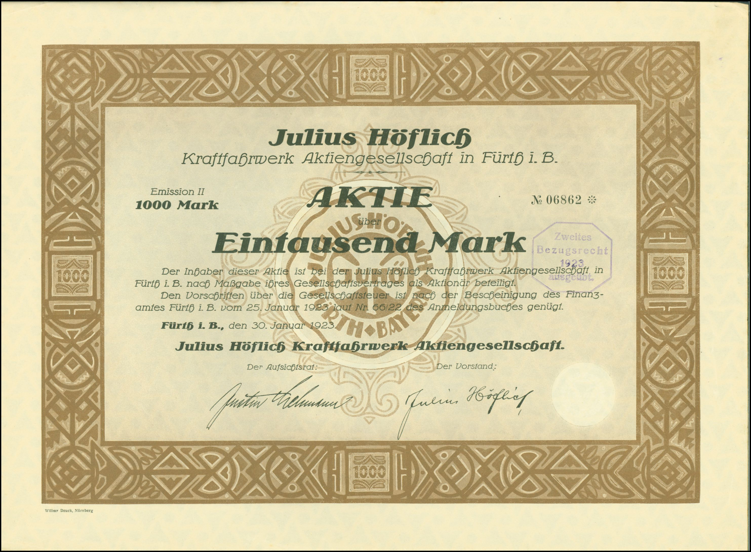 Share of the Julius Höflich Kraftfahrwerk AG, issued 30. January 1923